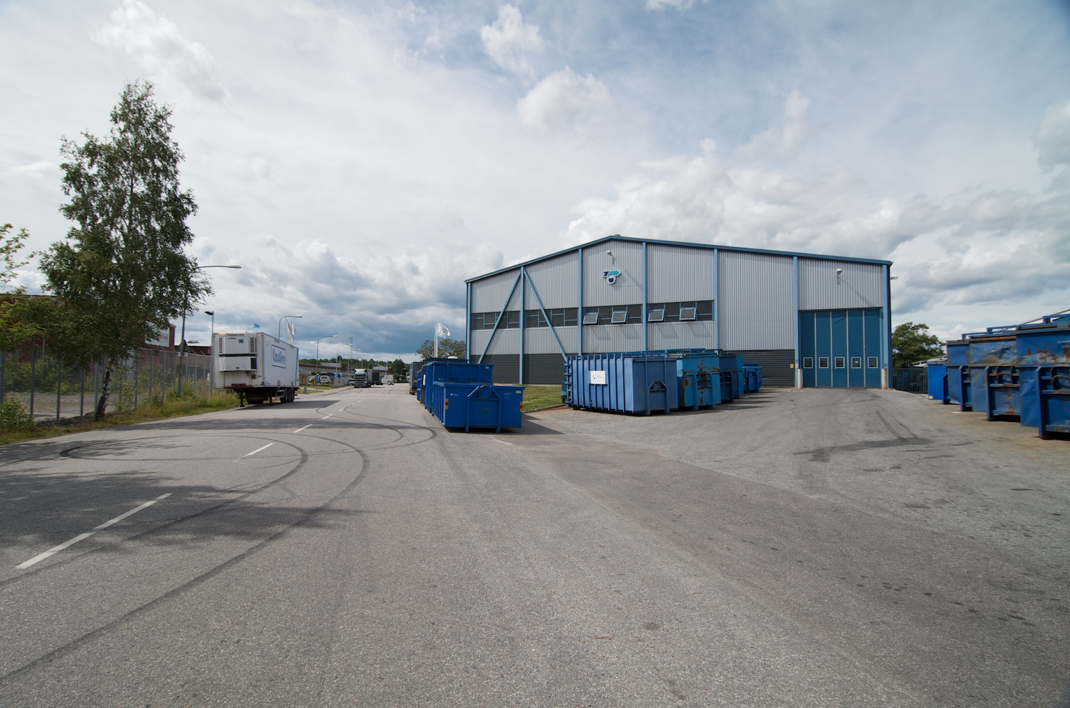 Typical industrial estate in Lunda